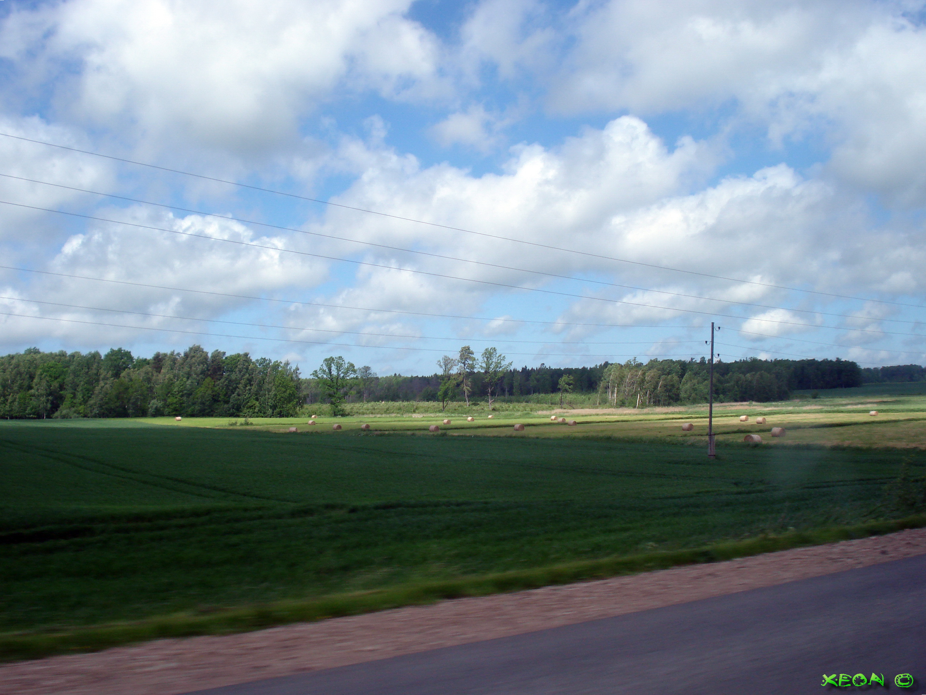 Field Near Road